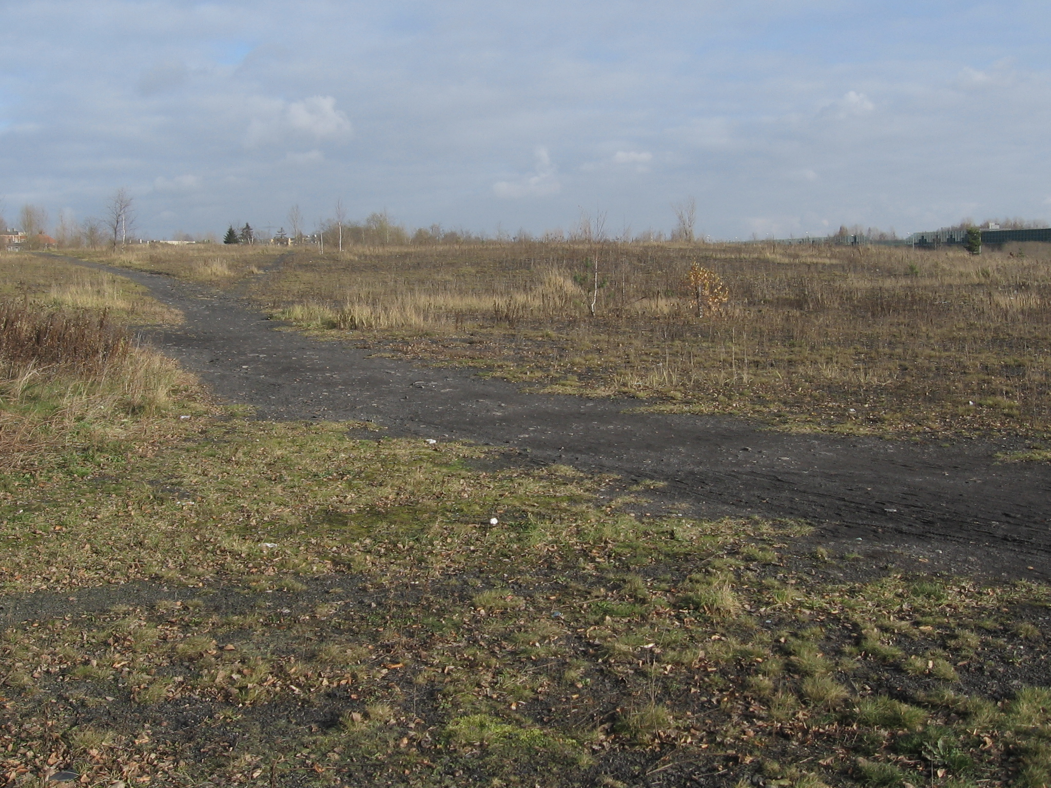 The leveled area of the former zinc ore mine Szarlej (ger. Scharley) in Piekary Śląskie, Szarlej, Poland.